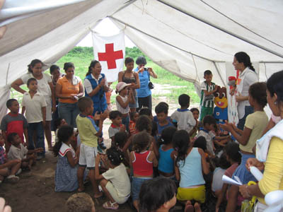 Colombia: Humanitarian Assistance to Refugees and Internally Displaced Persons